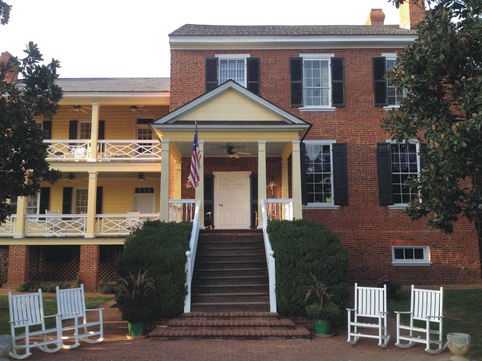 Clover Forest Southern exposure, showing the 1807-1811 brick addition, and the 1761 and 1850s wing.